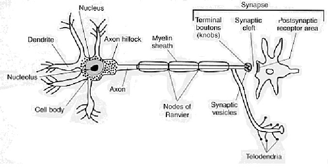 Telodendron